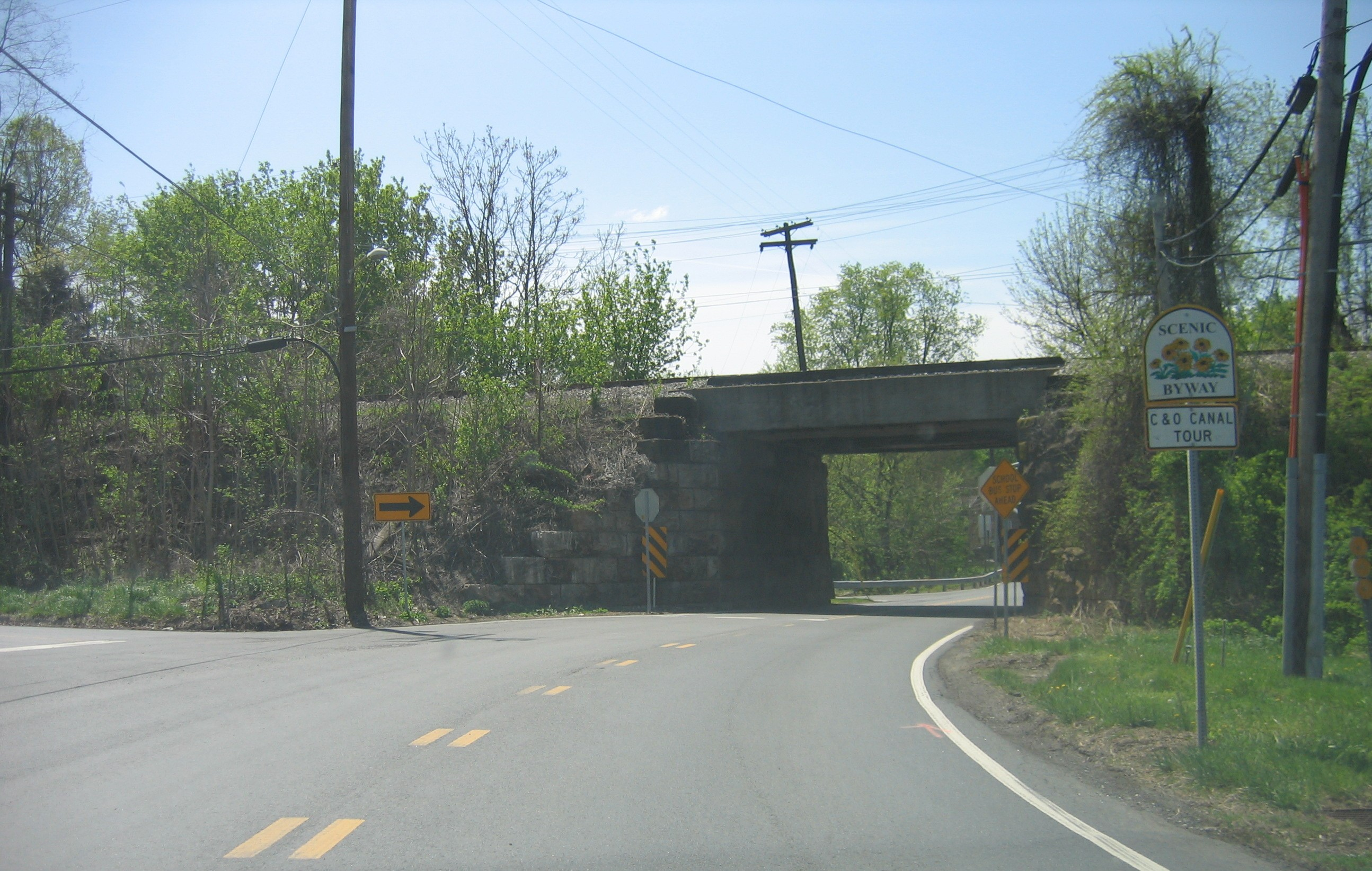 MD 28 at the CSX Metropolitan Subdivision tracks (Big Woods Road / Dickerson Church Road, Mt. Ephraim Road), Dickerson, Maryland, USA